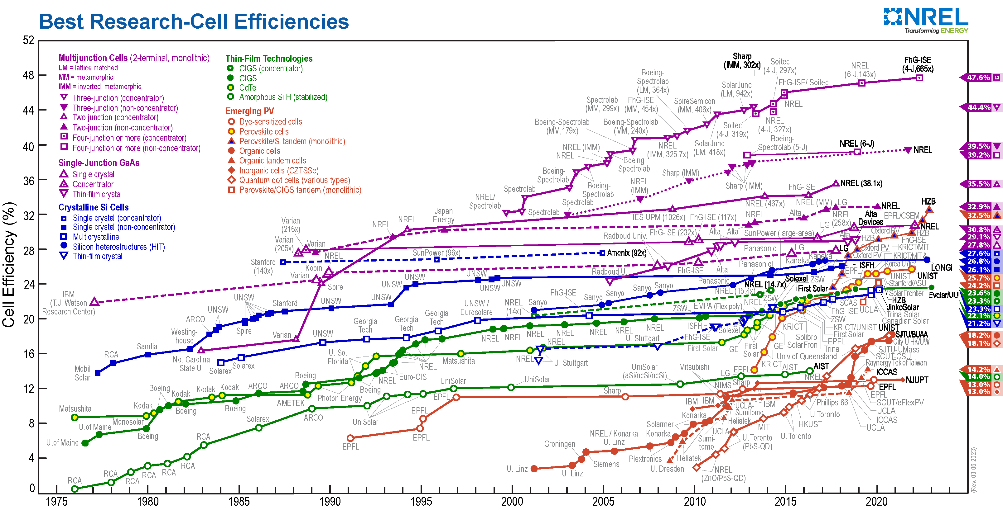 Conversion efficiencies of best research solar cells worldwide for various photovoltaic technologies since 1976. Multi-junction cells: Concentrator PV, Solar panels on spacecraft, Gallium Arsenide (GaAs) Crystalline Si Cells: Single crystal, Multicrystalline Thin-Film Technologies: CdTe, CIGS, Amorphous Si Emerging PV: Dye-sensitized solar cells, Perovskite solar cells, Organic solar cells, CZTSSe, Quantum dot solar cells